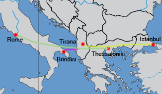 Shows actual route, hijacker's route and plane's last route